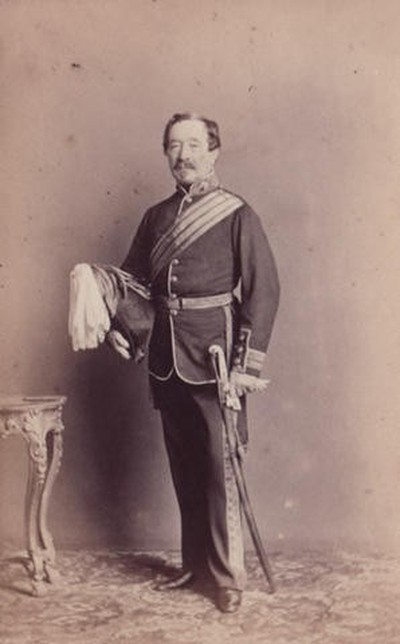 Photo of General Freeman Murray